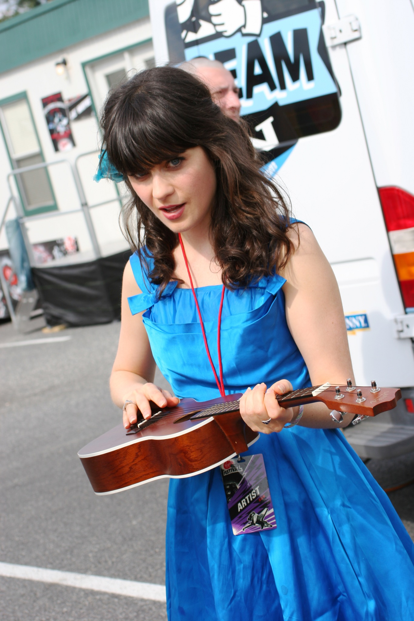 From the band She and Him